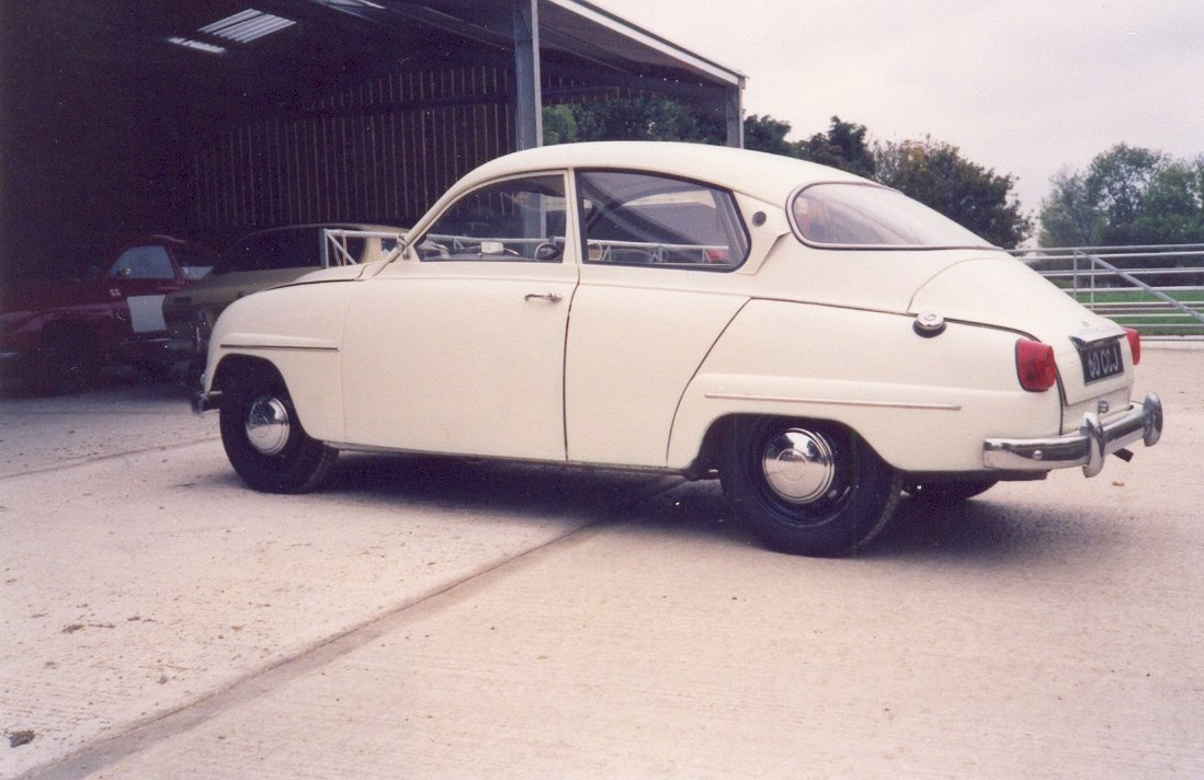 Saab 60 photographed by Ballista